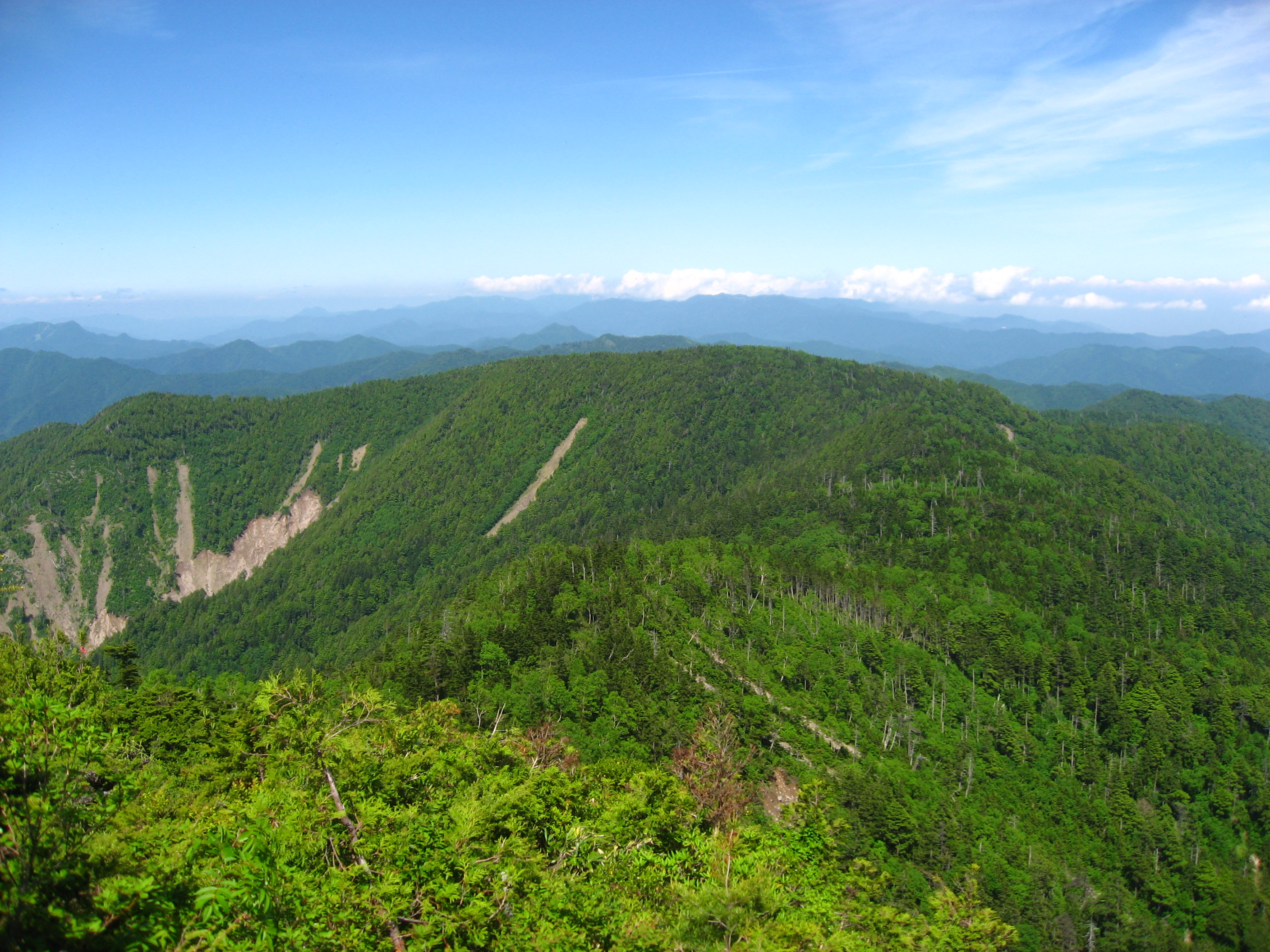 Mt. Tashiroyama,Taisyaku Mts.,Fukushima pref.,Japan